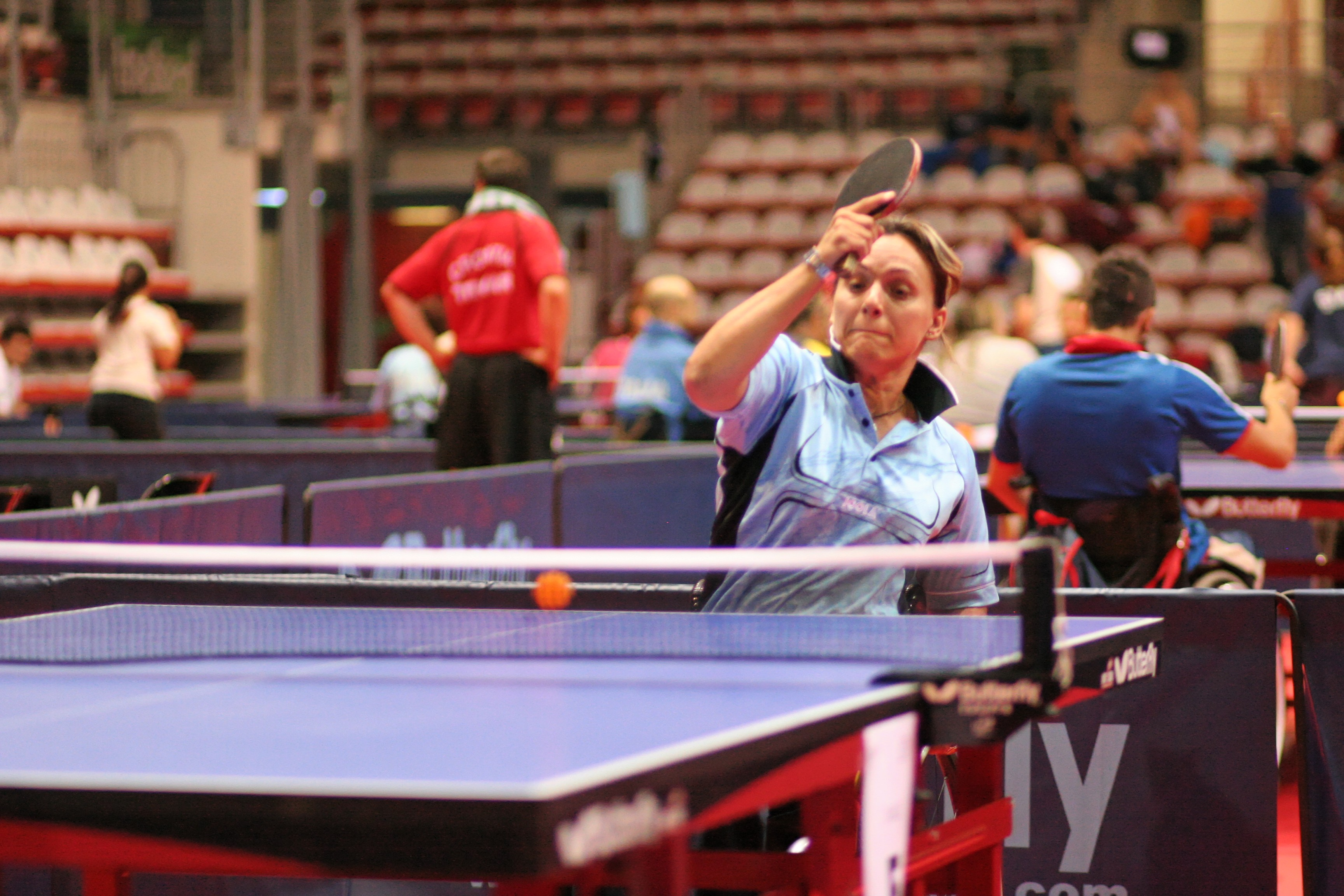 Michela Brunelli in Liguria